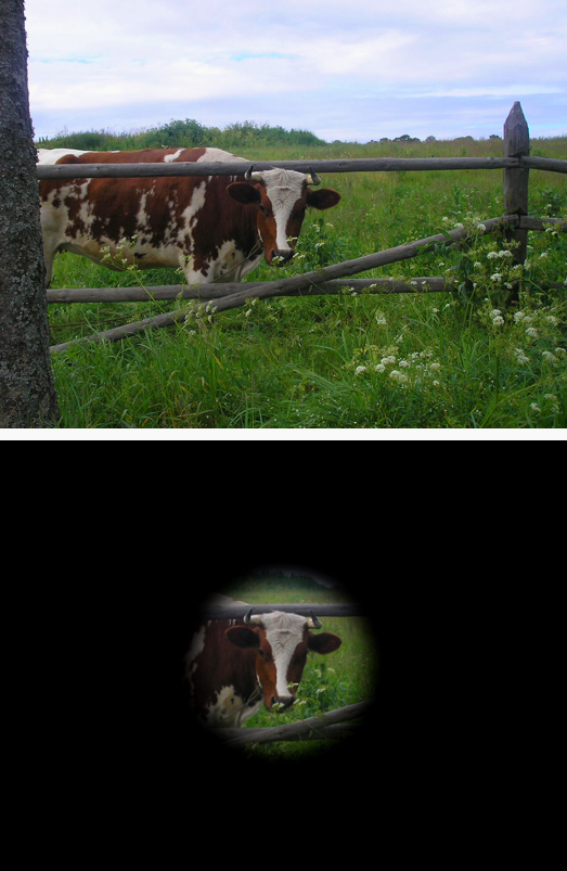 Tunnel vision imitation